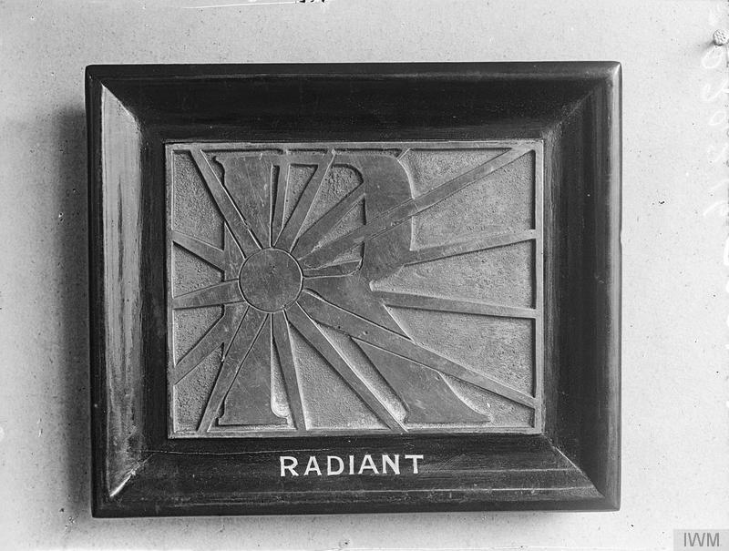 Collections of the Imperial War Museum Ship badge of HMS Radiant.